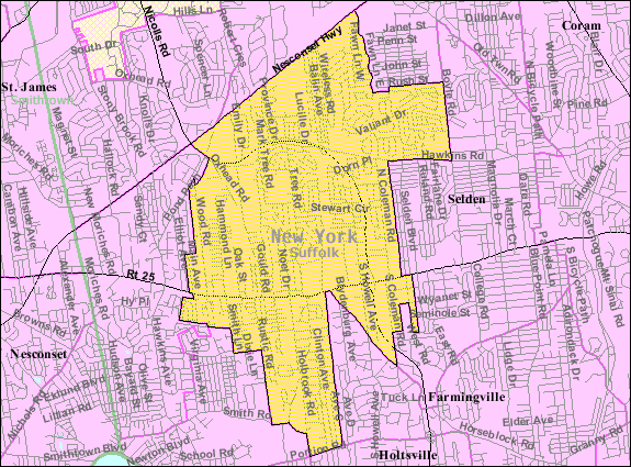 U.S. Census 2000 reference map for Centereach